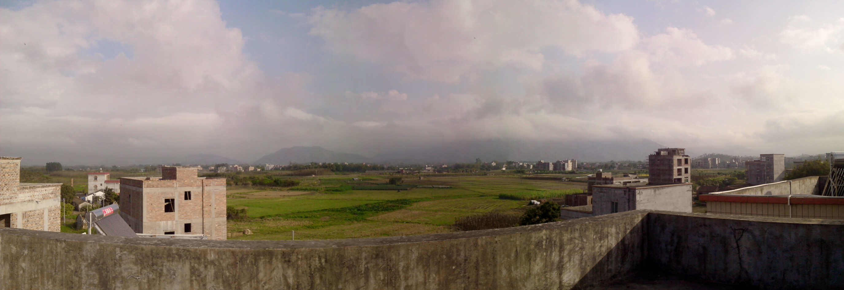 Photographed in Yangchun City in 2015